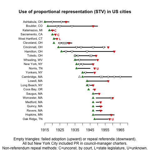 History of spells of Single Transferable Vote adoption in the United States. Graphic by Jack Santucci.